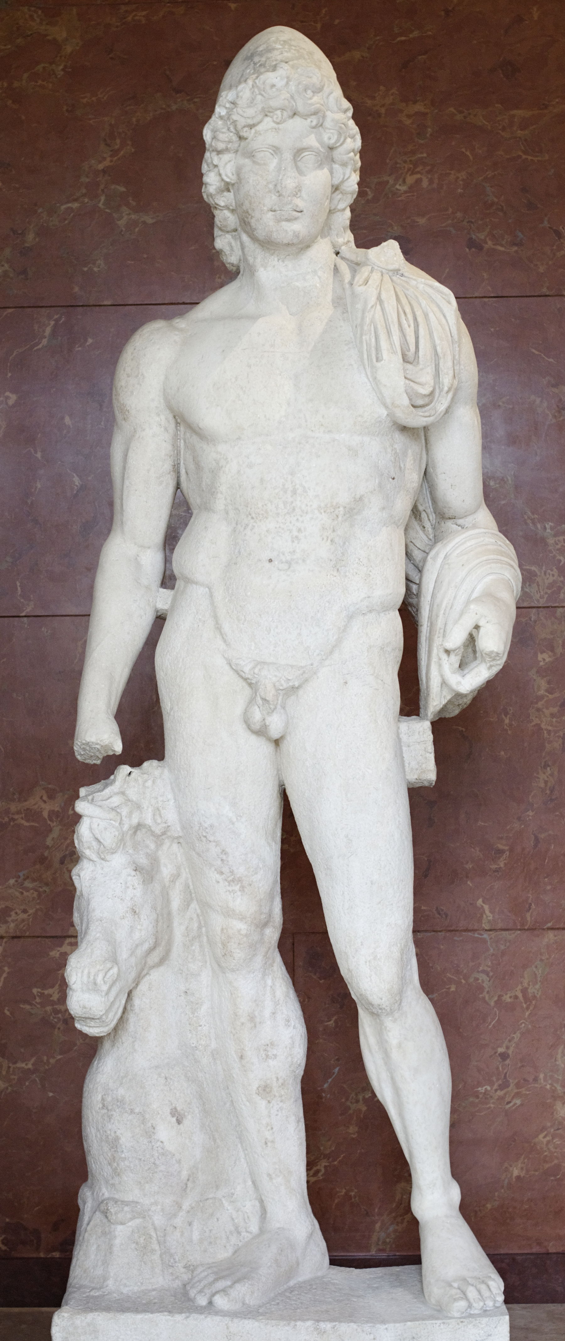 Dioscurus wearing the pilos (conical hat). From the northern area of the circus of Carthage.